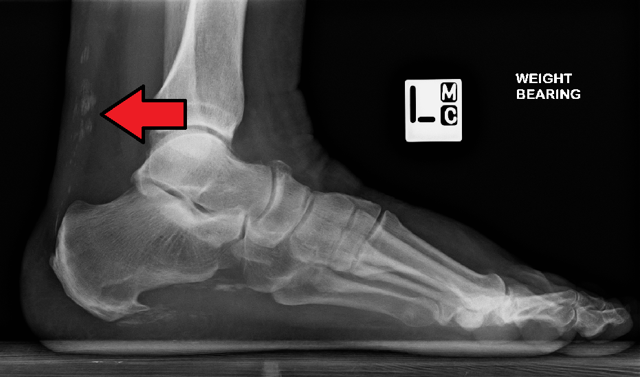 Calcification from dermatomyositis